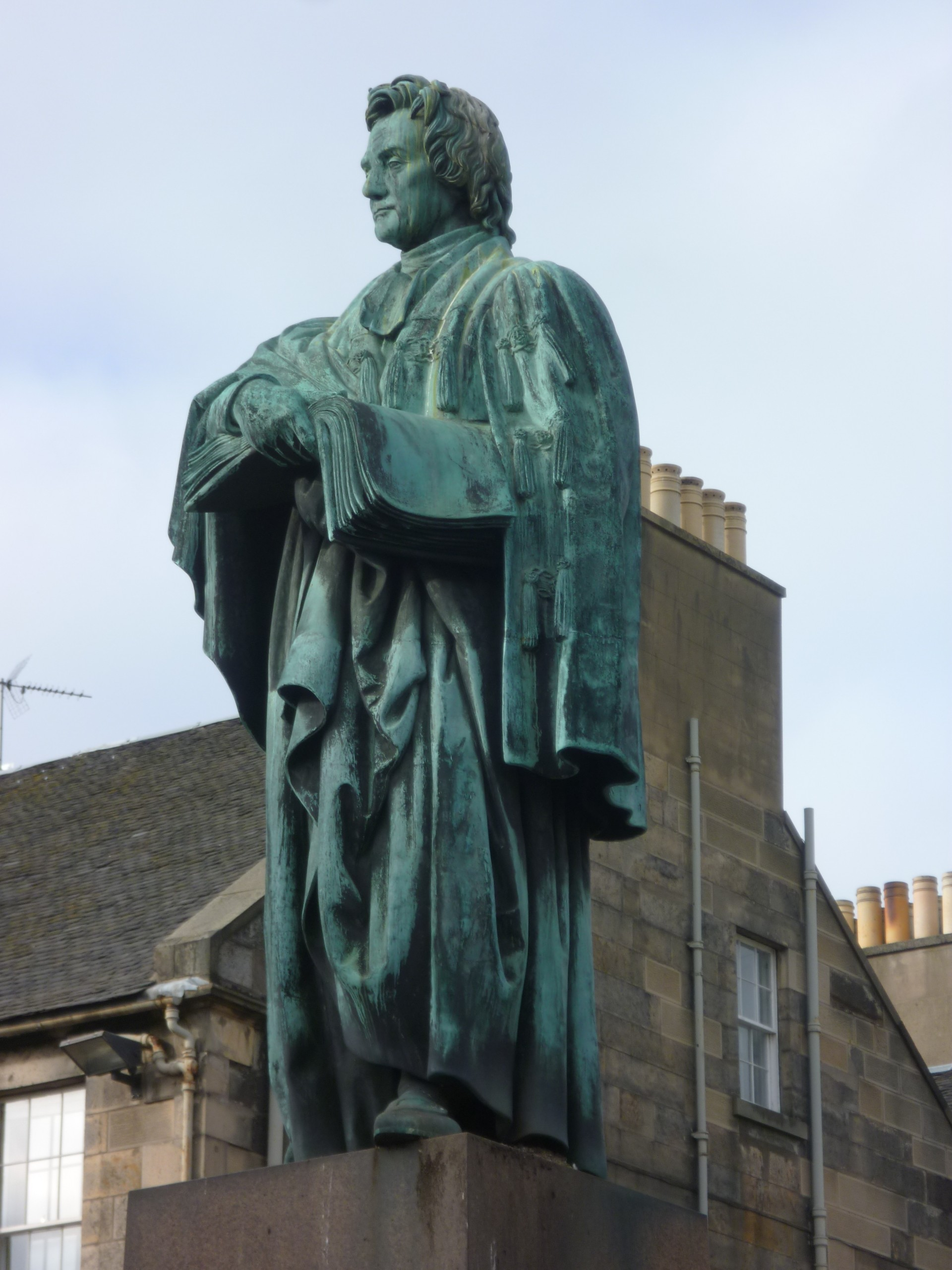 One of the leaders of the Disruption of 1843 which led to the creation of the Free Church of Scotland. The issue which led to the breakaway was whether wealthy patrons had the right to install a minister in a parish. Chalmers was one of 450 ministers who refused to compromise the Kirk's independence and its right to conduct its own affairs.